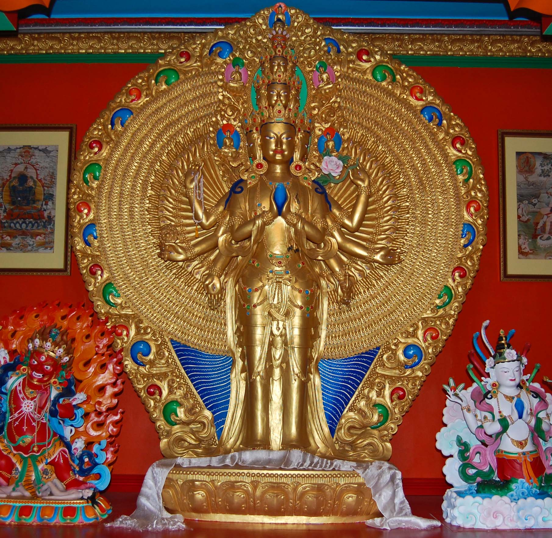 Statue of 1000-armed Chenrezig, Samye Ling.